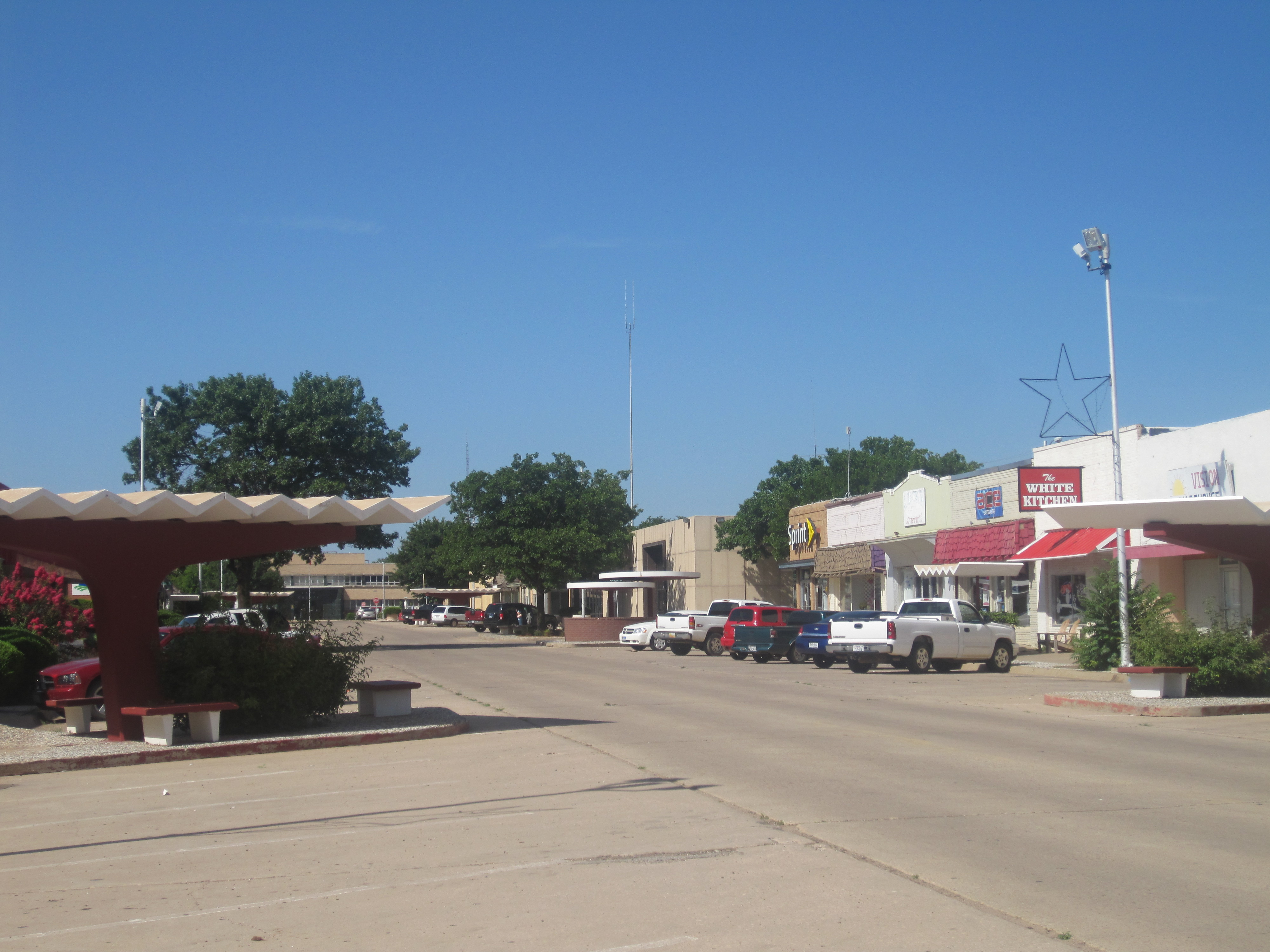 I took photo with Canon camera in Littlefield, TX.